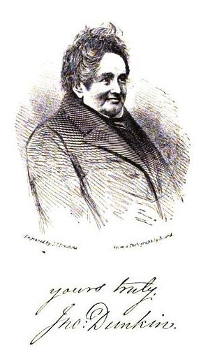 John Dunkin (1782–1846), an English topographer. Likeness by I. J. Penstone (after photograph by Beard).